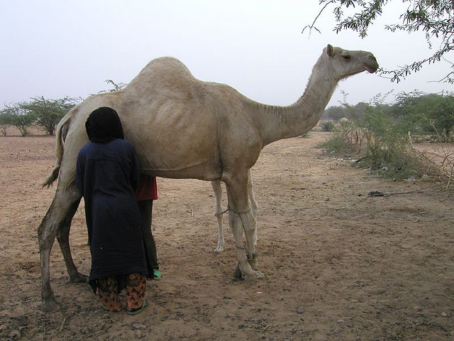 Camel milking in Niger